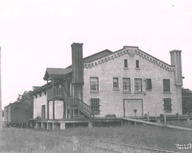 From Tacoma Public Library Marvin D. Boland Collection, image Series: BOLAND-B4259, unique identifier 36406. Shows The Arsenal building at Camp Murray, Washington in 1921 (now houses Washington National Guard Museum aka the Arsenal Museum. Image caption states that the building was constructed in 1915 and now houses the Washington National Guard Museum. Image dated 06-16-1921.